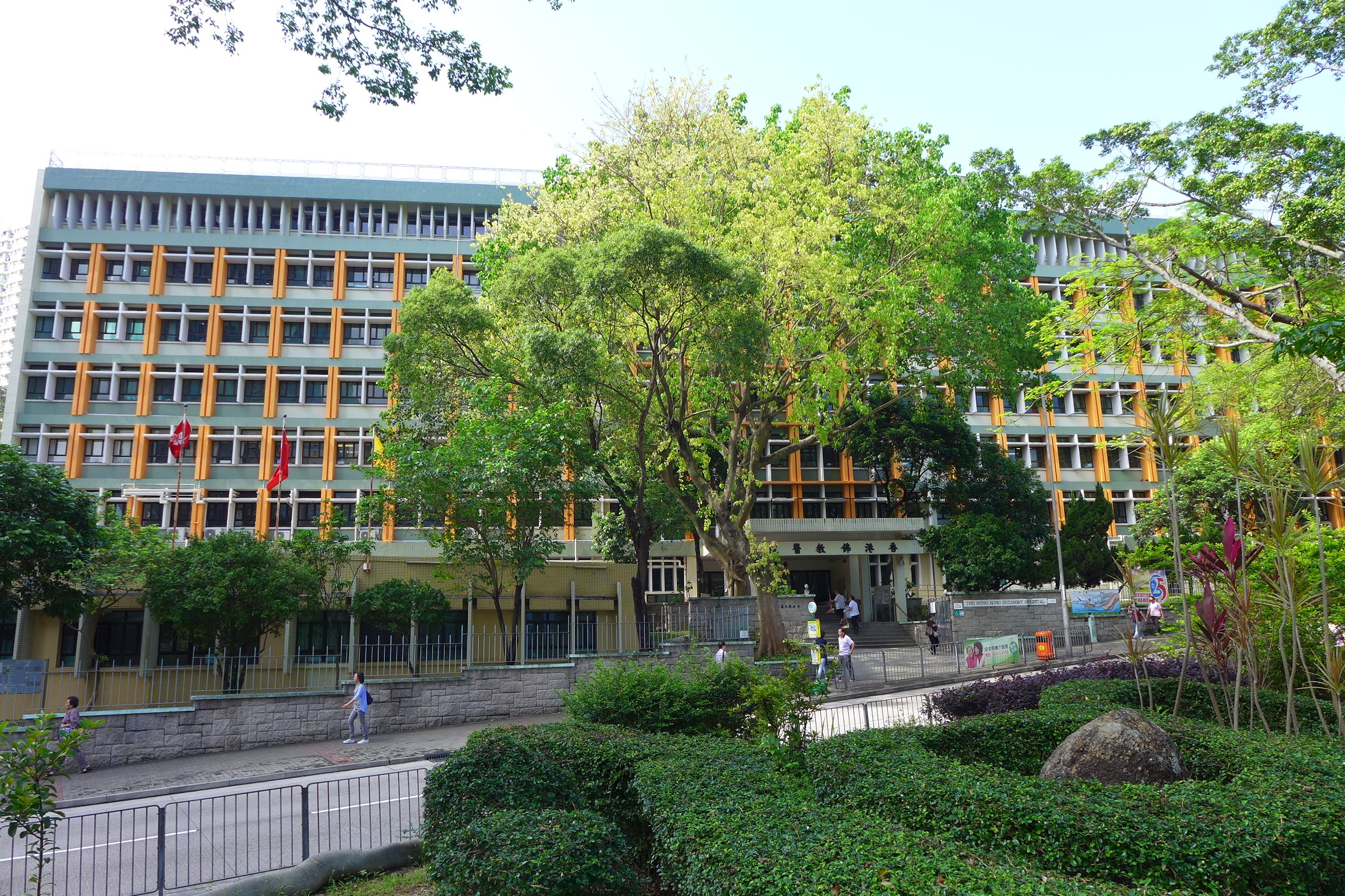 The Hong Kong Buddhist Hospital